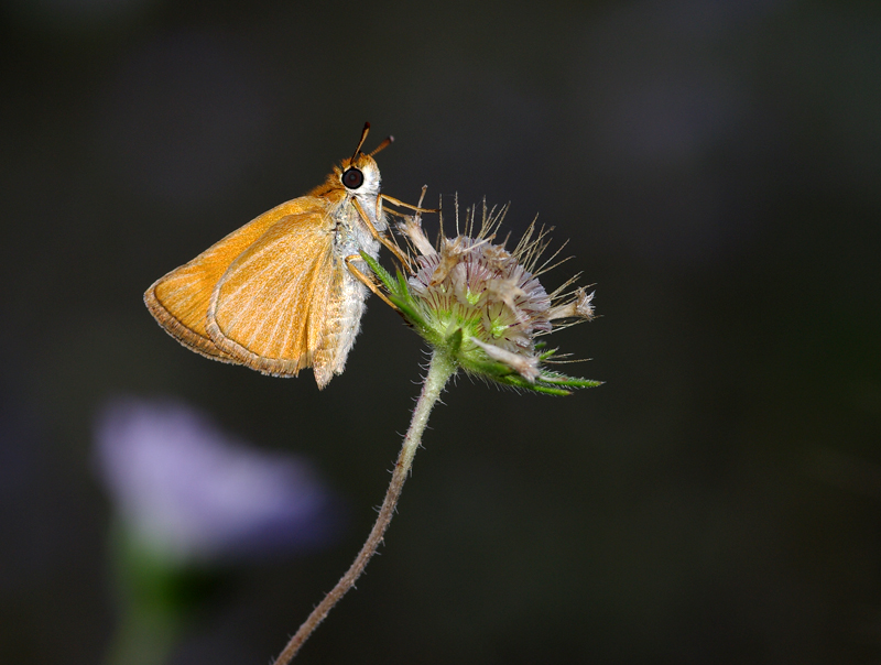 Wing underside view of female "Lullworth skipper" (Thymelicus acteon). Adana, Turkey